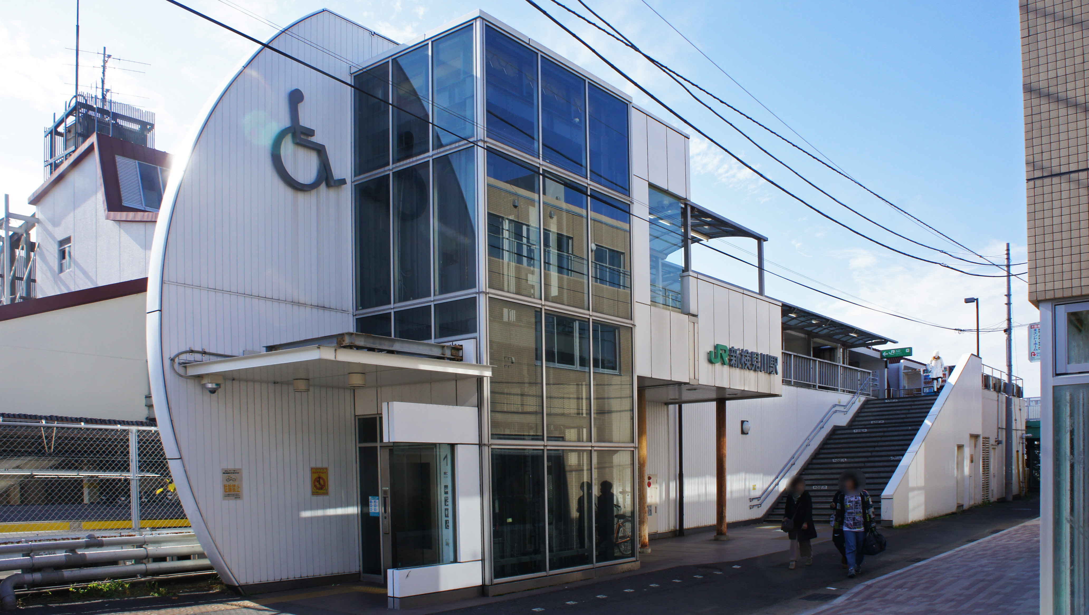 North Exit of JR Sobu-Main-Line Shin-Kemigawa Station